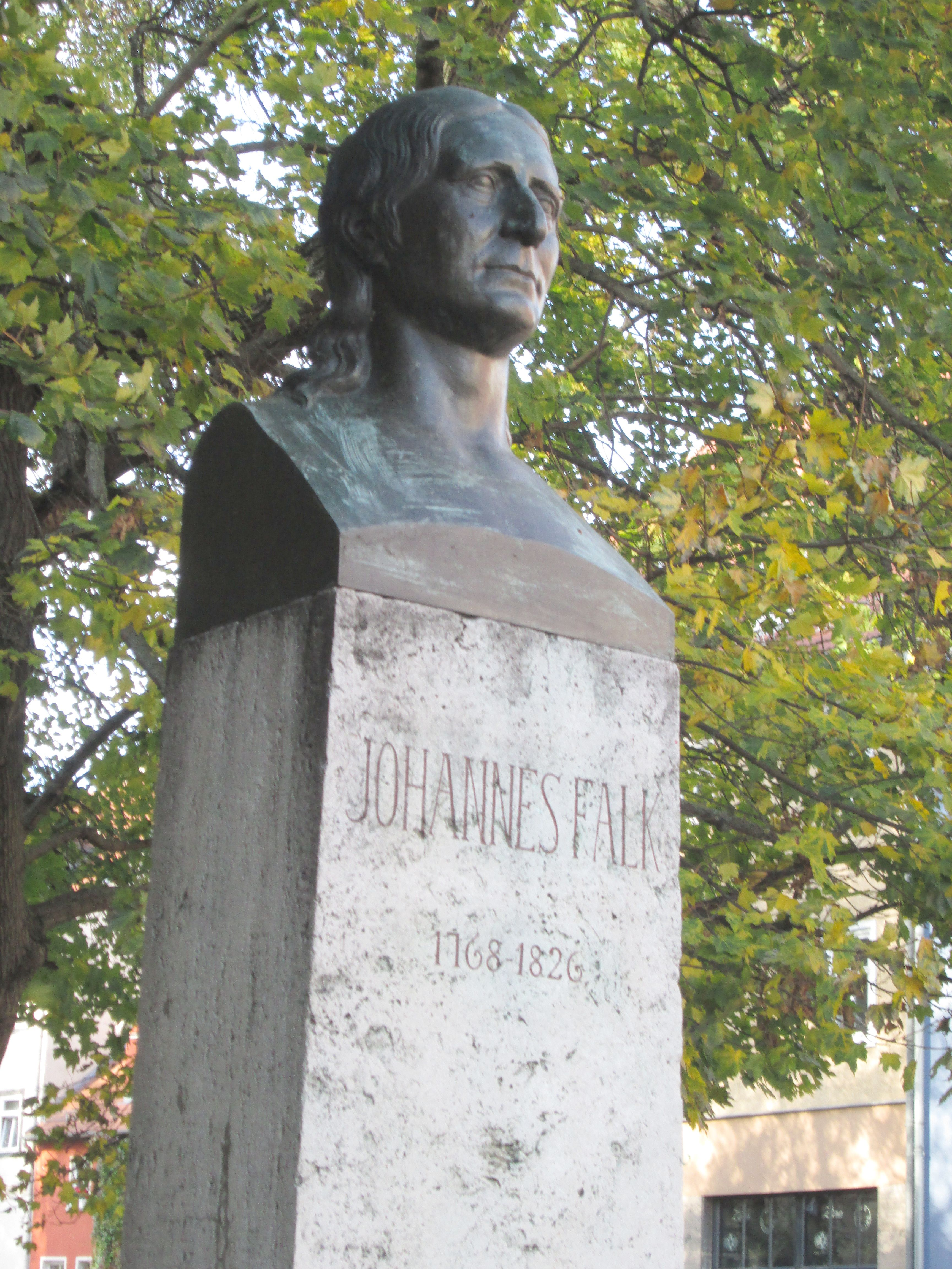 Johannes Daniel Falk memorial in Weimar, Thuringia, Germany